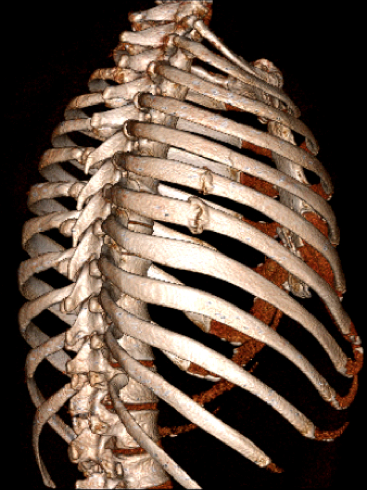 Chest computerized tomography rib reconstruction shows 2 non-union subacute fractures, and the acute fracture in the adjacent 5th rib.